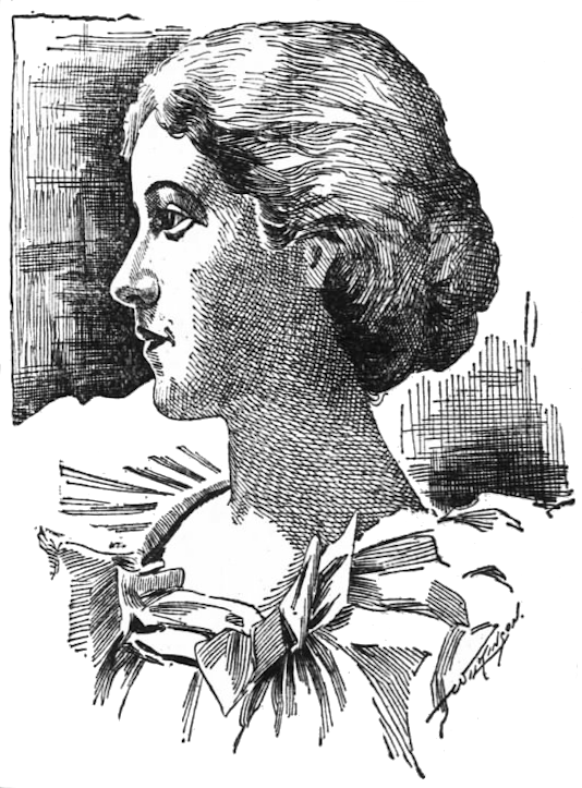 Newspaper illustration of Edna Cain, assistant editor of the Chattooga News of Summerville, Georgia (USA) for an item in The Atlanta Constitution in July 1896